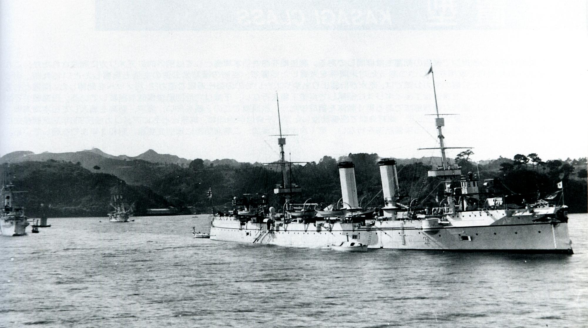 Picture of Japanese cruiser Yoshino at Yokosuka in 1896